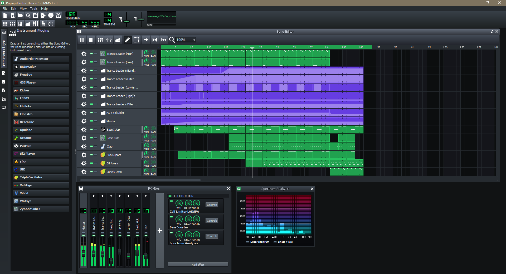 Screenshot of a Popsip's Electric Dancer demo in LMMS 1.2.1